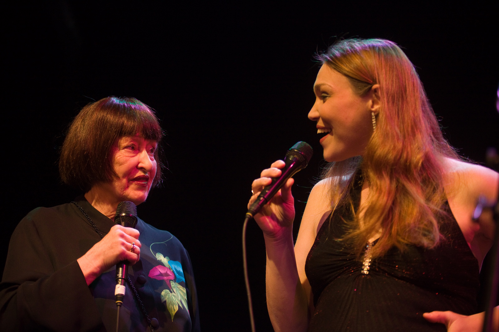 Sheila Jordan and Sabine Kühlich